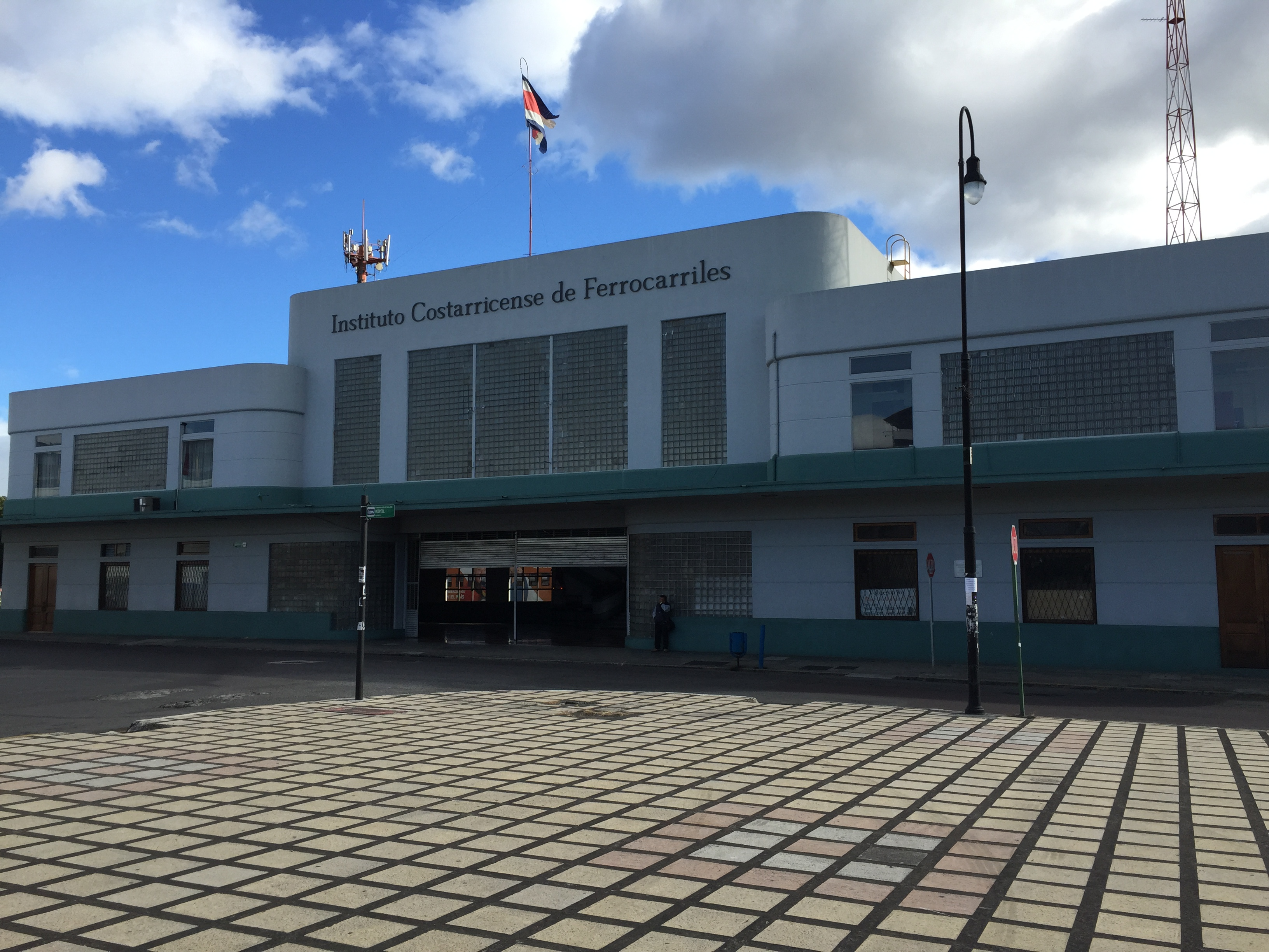 Pacific Railroad Station, San Jose, Costa Rica from the street